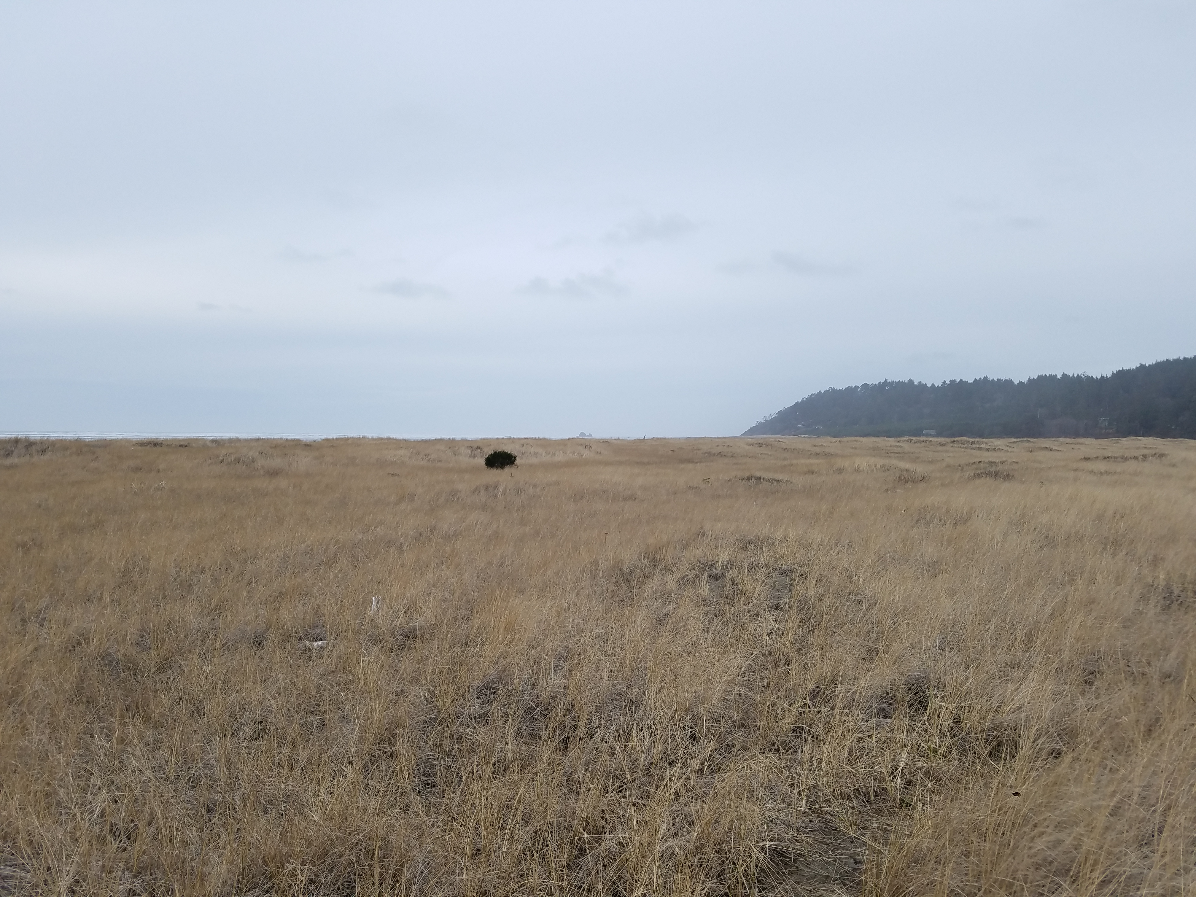 Grass-covered dunes in Griffiths-Priday State Park in the U.S. state of Washington. The Pacific Ocean is visible at the horizon in the distance. The tiny rock in the ocean barely visible in the center is Copalis Rock.